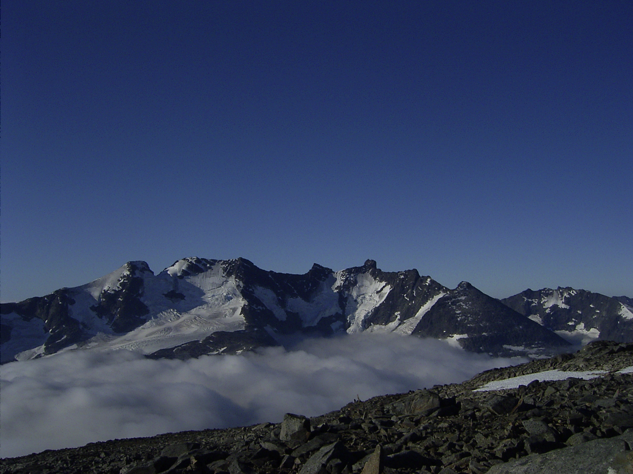 Hurrungane seen from Fanaråken Cabin. From right: Jervvasstind, Styggedalstindane, Sentraltind, Storen (with Vetle in front), Mitdre and Nordre Skagastølstind, Dyrhaugstindane and the top of Store Ringstind behind Dyrhaugstindane. Photo: Bernt Marius Johnsen, 2004